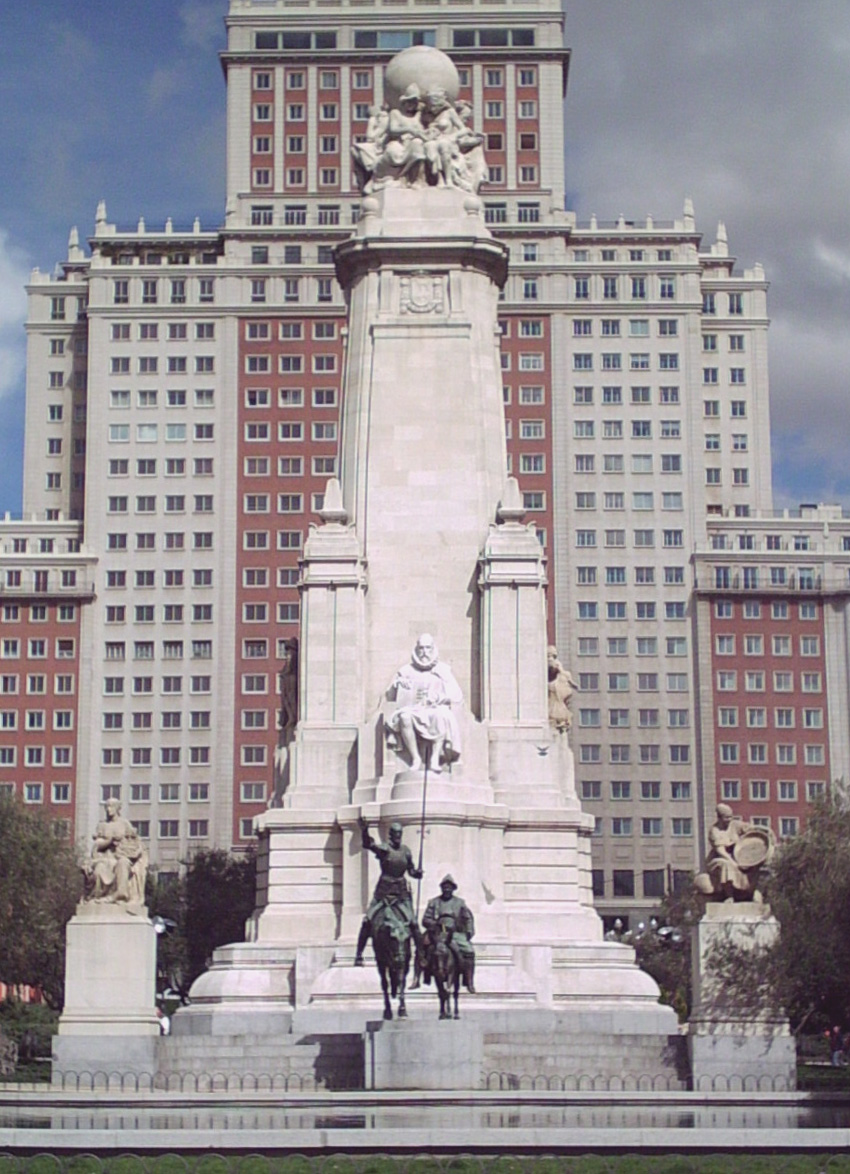 South-western side of the monument to Miguel de Cervantes at Plaza de España (square) in Madrid (Spain).